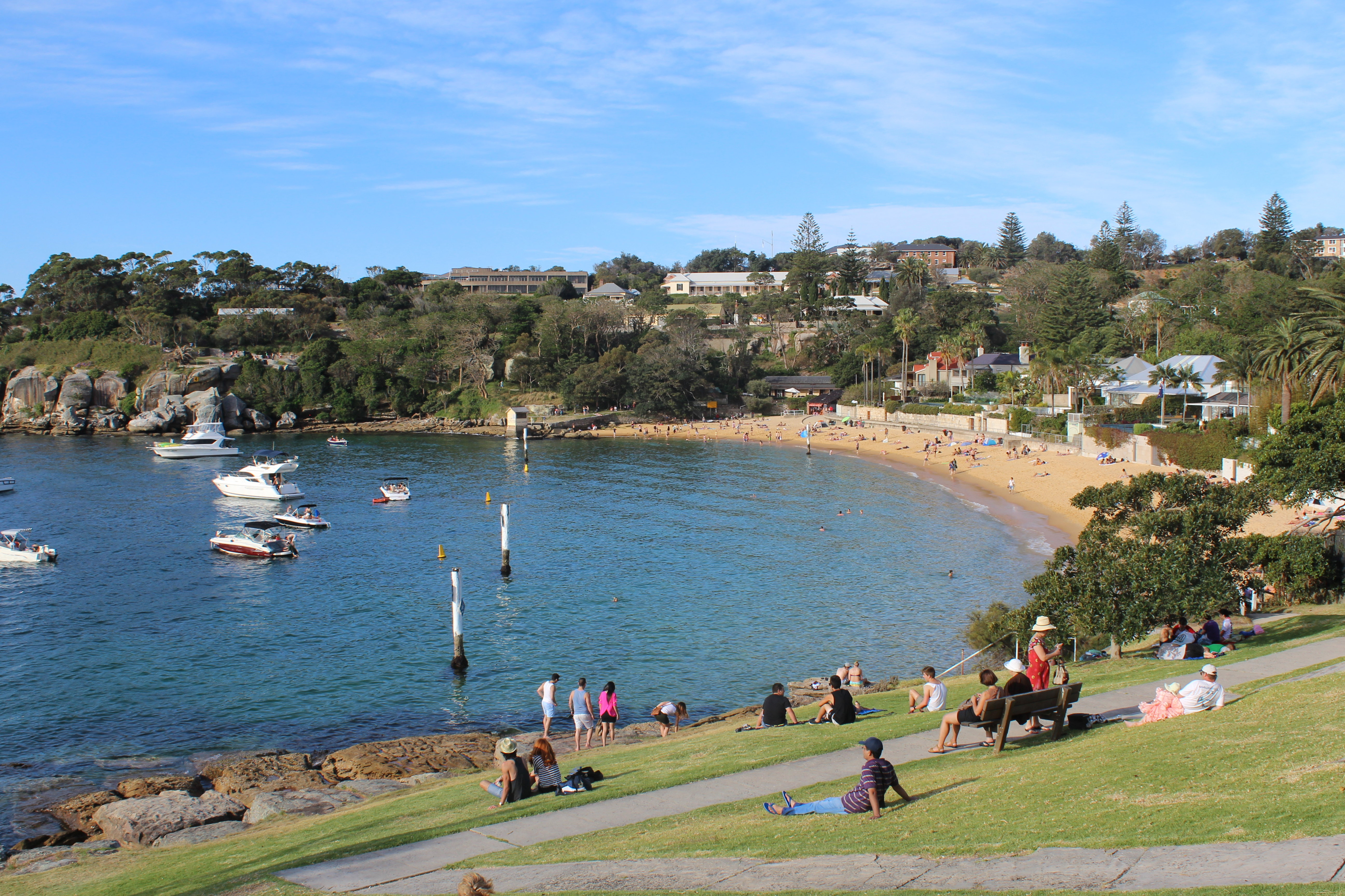 Camp Cove, Sydney, the beach where Captain Arthur Phillip, first Governor of New South Wales landed on 21 January 1788 when looking for an alternative site to Botany Bay.[1] The beach is on the southern side Sydney Bay of a few hundred metres from South Head. Phillip finally established his settlement at Port Jackson, some 3 km to the west of this point and on the north side of the bay. ↑ Landing of Governor Arthur Phillip. Monument Australia. Retrieved on 10 November 2019.